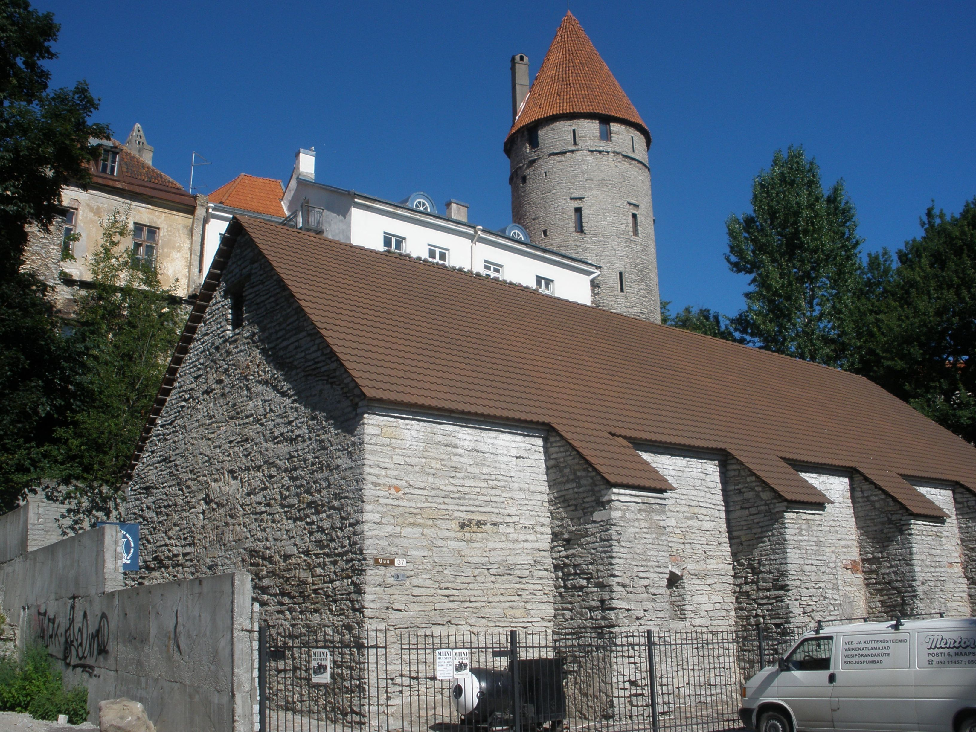 Estonia, Tallinn